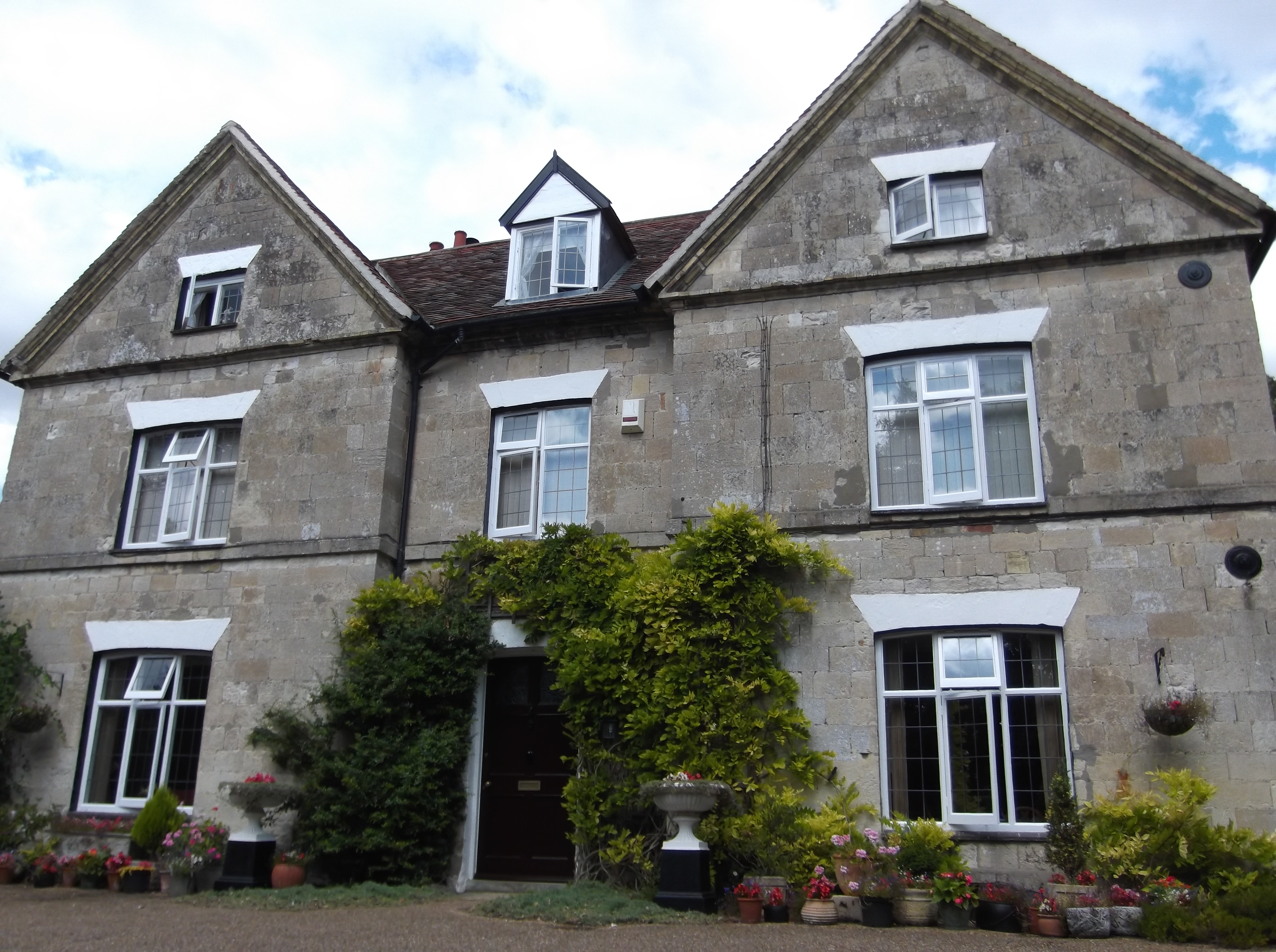 Photograph of Spinney Abbey, Cambridgeshire - house incorporating masonry from Spinney Priory